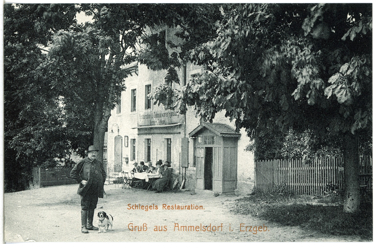 This postcard is from publisher Brück & Sohn in Meißen ( This postcard has a unique number 14859 and is available in a higher resolution at the publisher. This images was uploaded in a cooperation project between Wikipedians and the publisher.